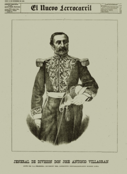 jose antonio villagran correas